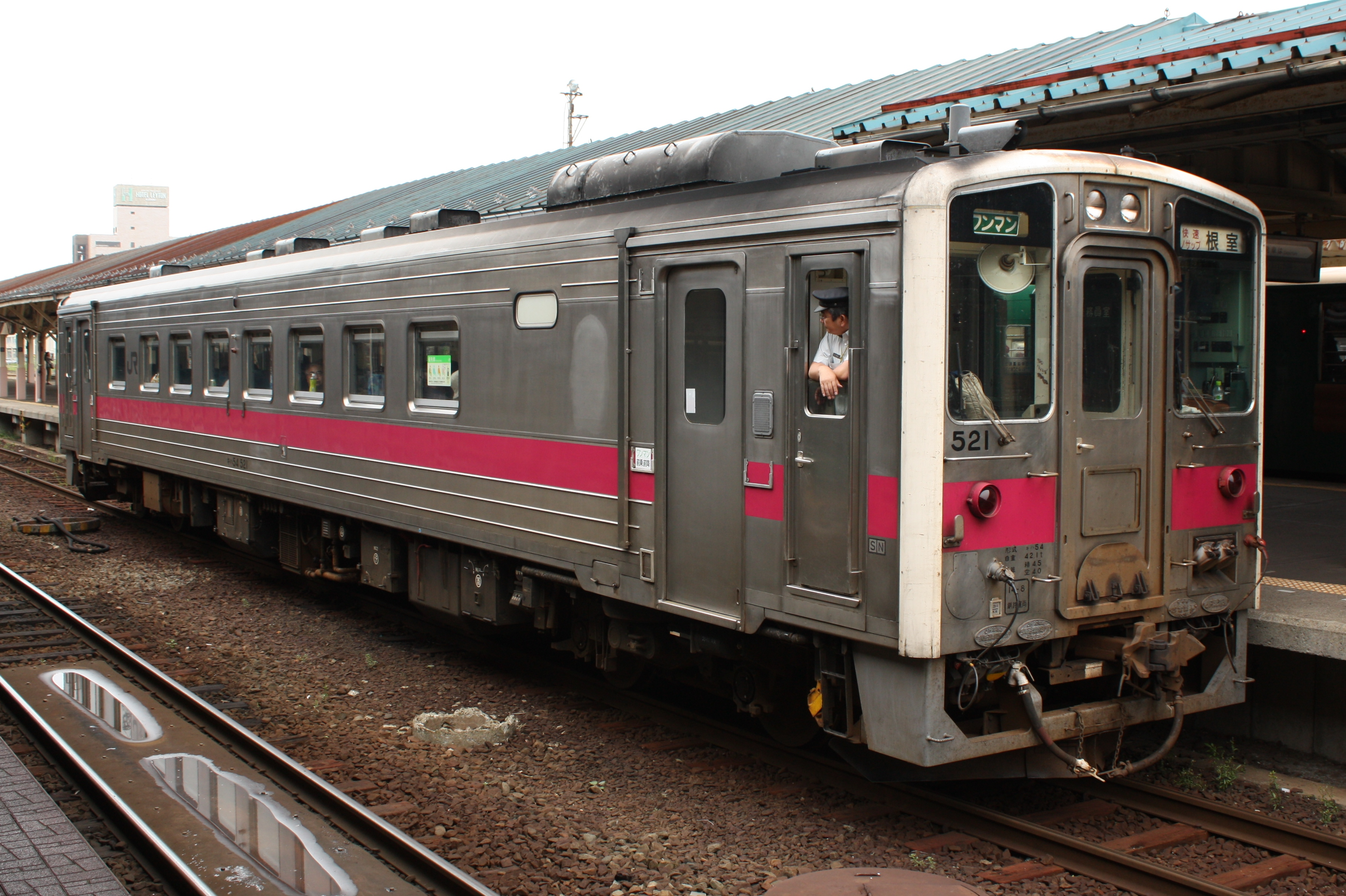 Rapid Nosappu. JNR Kiha 54 521 at Kushiro Station in Kushiro, Hokkaidō, Japan.